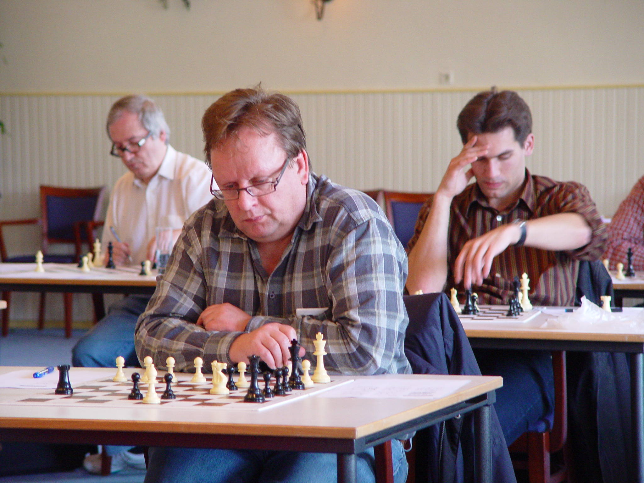 Harold van der Heijden at the Dutch endgame solving championship (2007) for endgame studies (ARVES).